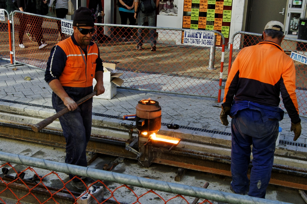 Workers join tram tracks with molten metal in Christchurch, New Zealand